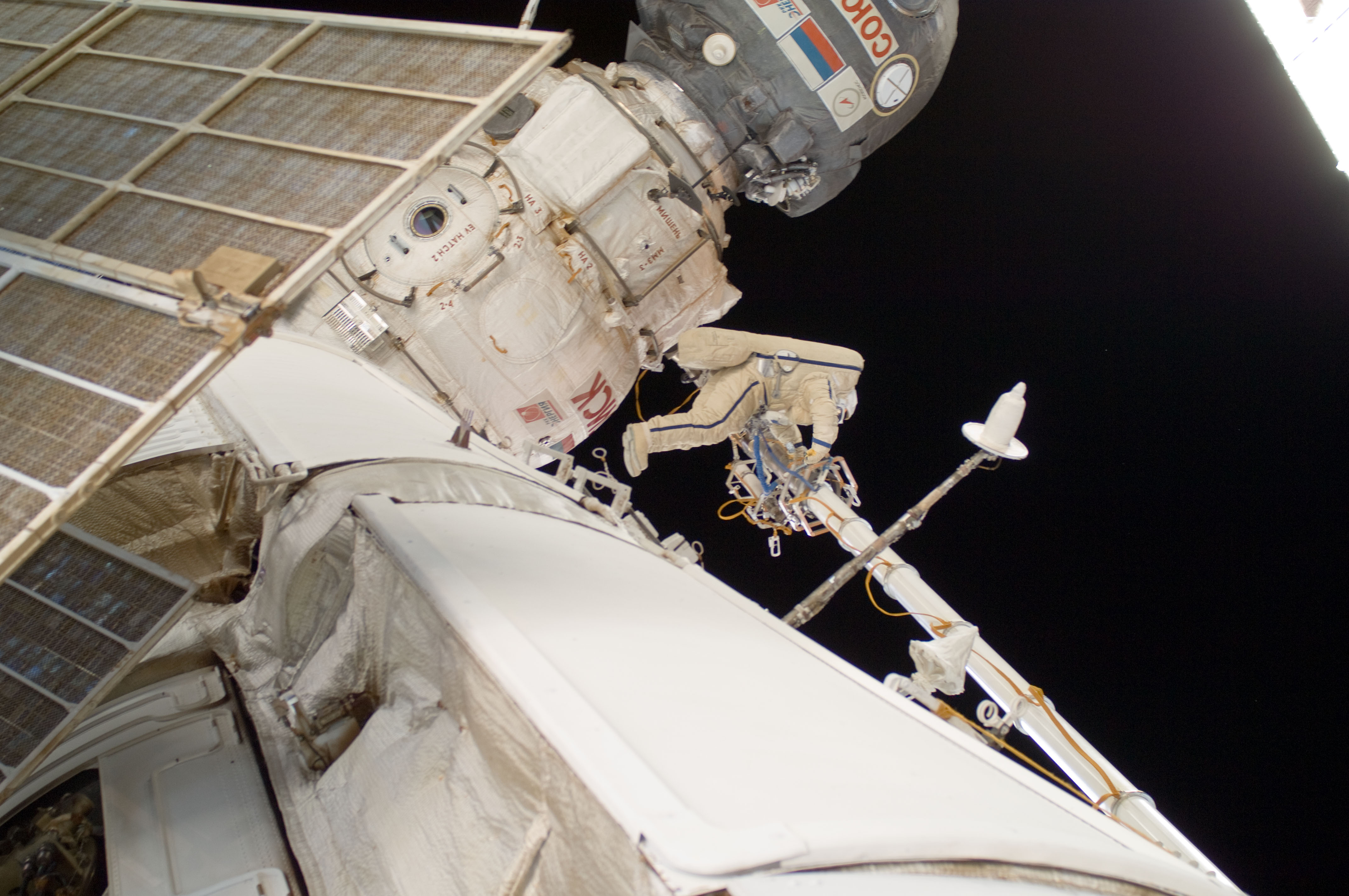 Russian cosmonaut Yuri Malenchenko, Expedition 32 flight engineer, participates in a session of extravehicular activity (EVA) to continue outfitting the International Space Station. During the five-hour, 51-minute spacewalk, Malenchenko and Russian cosmonaut Gennady Padalka (out of frame), commander, moved the Strela-2 cargo boom from the Pirs docking compartment to the Zarya module to prepare Pirs for its eventual replacement with a new Russian multipurpose laboratory module. The two spacewalking cosmonauts also installed micrometeoroid debris shields on the exterior of the Zvezda service module and deployed a small science satellite.